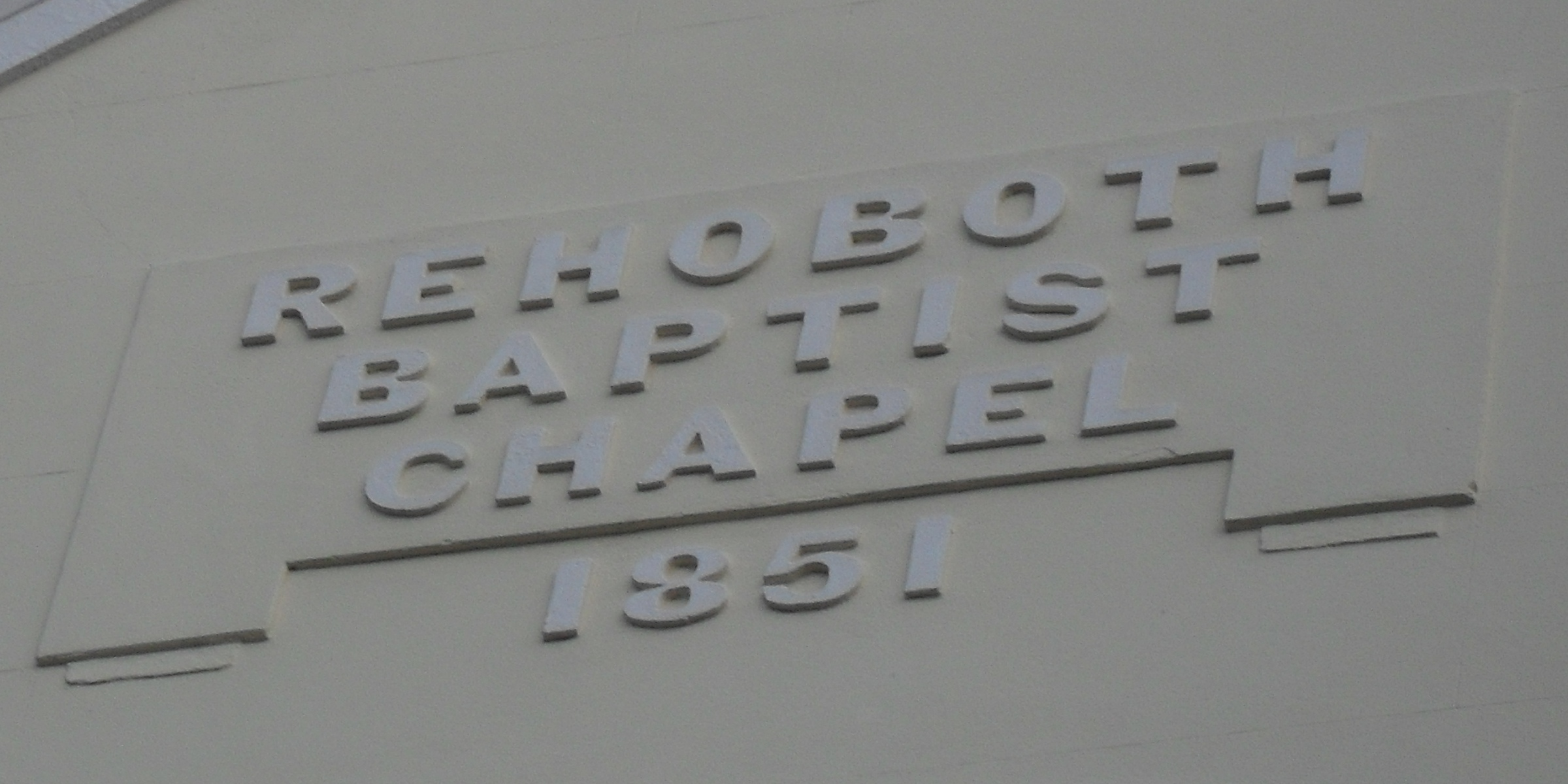 Former Rehoboth Chapel, Chapel Place, Royal Tunbridge Wells, Borough of Tunbridge Wells, Kent, England. A former Strict Baptist chapel superseded by the new Pantiles Baptist Church at 73 Frant Road. Now a hairdressing salon. This shows the date and name plaque on the gable end.